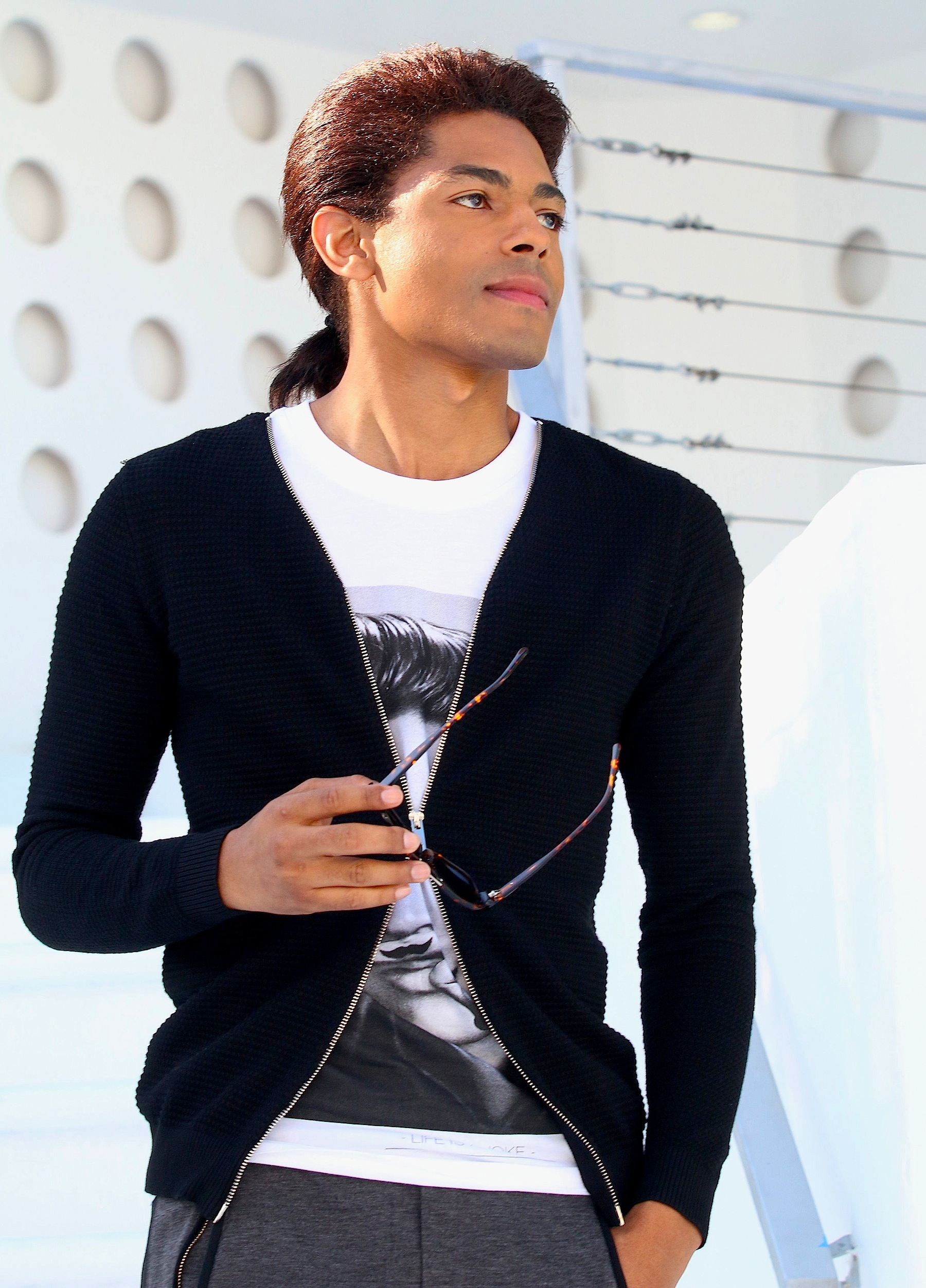 B. Howard at Akon Home on October 09, 2014